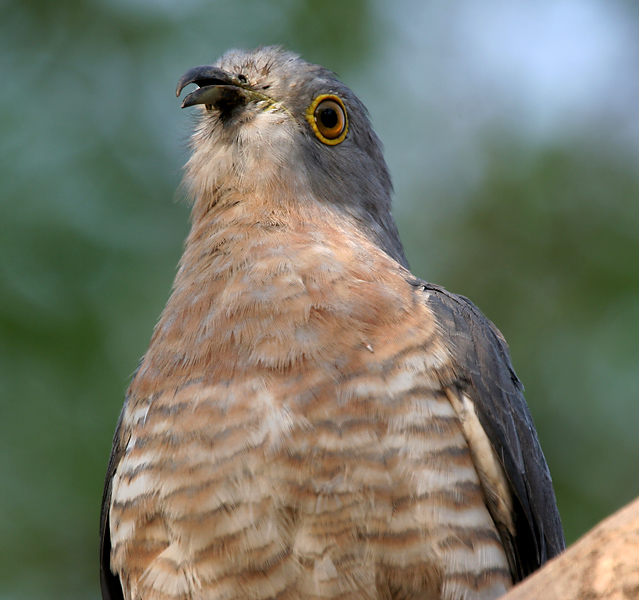 Common Hawk-cuckoo or Brainfever bird Cuculus varius in Mahavir Harina Vanasthali National Park, Hyderabad, India.